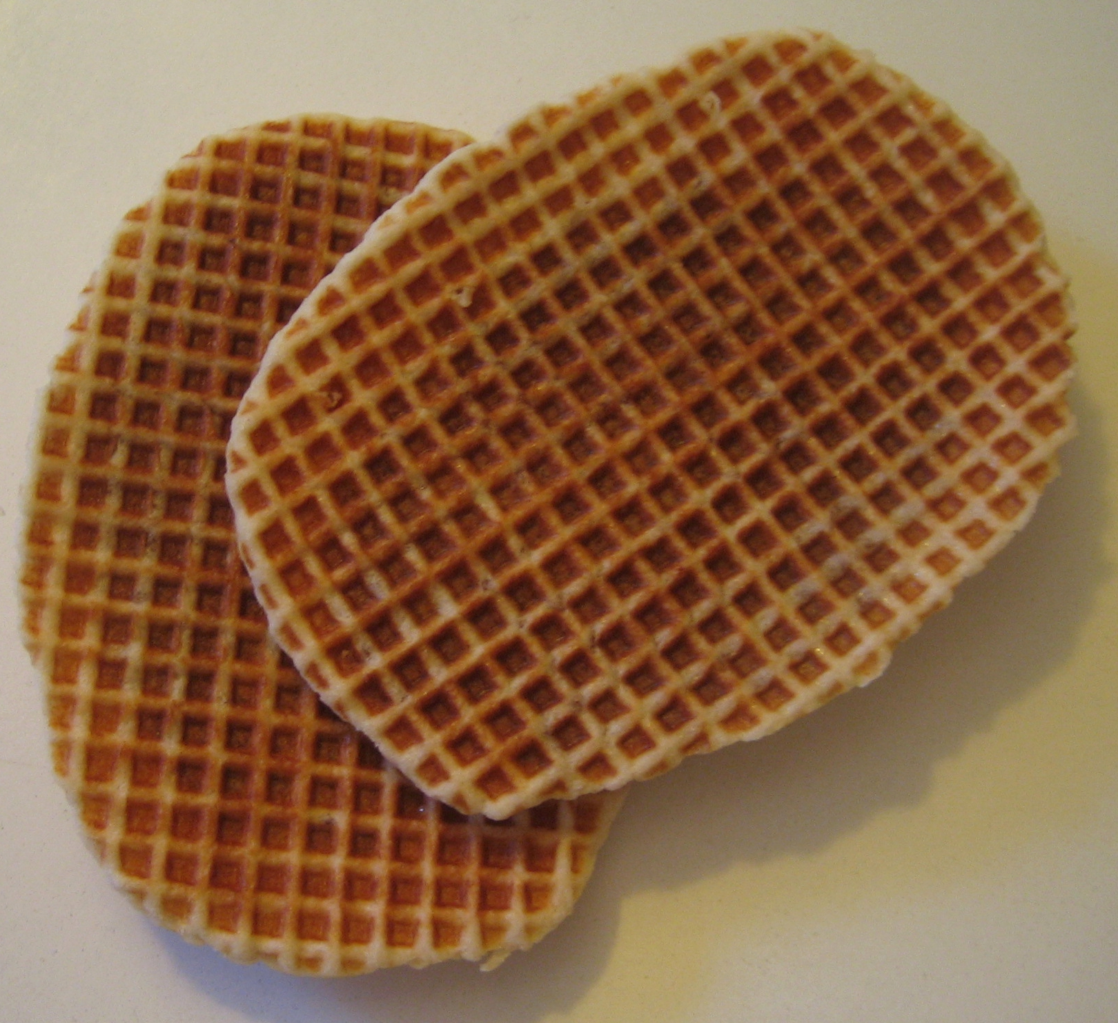 Lille waffles stuffed with northern brown sugar, Rita brand.